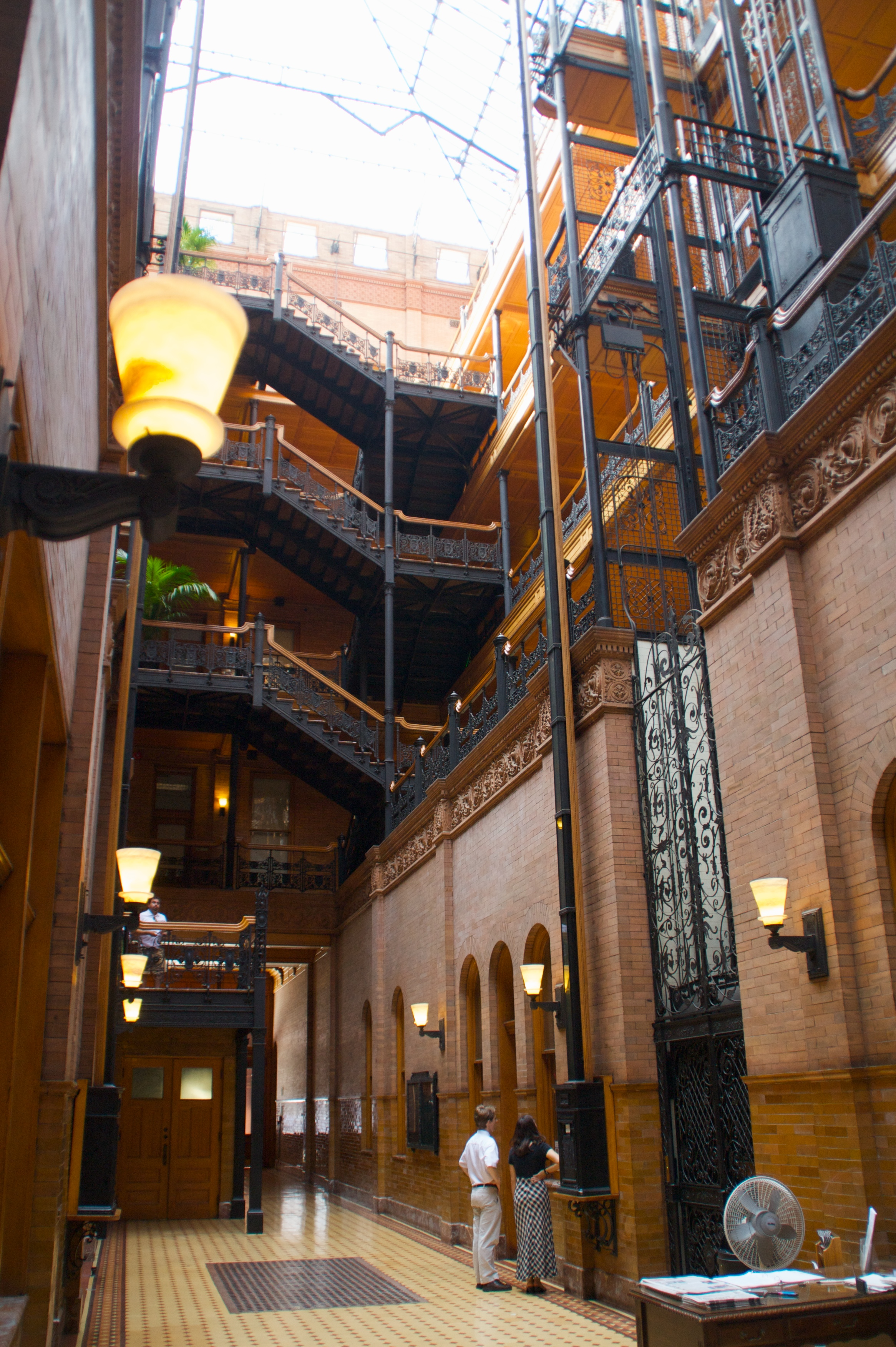 The Bradbury Building, in Los Angeles California "was commissioned by Lewis Bradbury (after whom it is named), a mining millionaire who had become a real estate developer in the later part of his life. His plan (in 1892) was to have a five story building constructed at Third Street and Broadway in Los Angeles, close to the Bunker Hill neighborhood. A local architect, Sumner Hunt, was first hired to complete a design for the building but Bradbury ruled against constructing his plans which he did not view as adequately matching the grandeur of his vision. Bradbury then hired George Wyman, one of Hunt's draftsmen, to design the building. Wyman at first refused the offer to design the building. However Wyman supposedly had a ghostly talk with his dead brother Mark Wyman (who had been dead for six years) while using a planchette board with his wife. The ghostly message that came through supposedly said 'Mark Wyman / take the / Bradbury building / and you will be / successful'; with the word "successful" written upside down. After the episode, Wyman took the job and is now regarded as the architect of the Bradbury Building. Wyman's grandson, the science fiction publisher Forrest J. Ackerman, owns the original of this document. Coincidentally, Ackerman is a close friend of science fiction author Ray Bradbury." - Wikipedia The building opened in 1893, and is most famous for being featured in the film, "Blade Runner", with Harrison Ford.